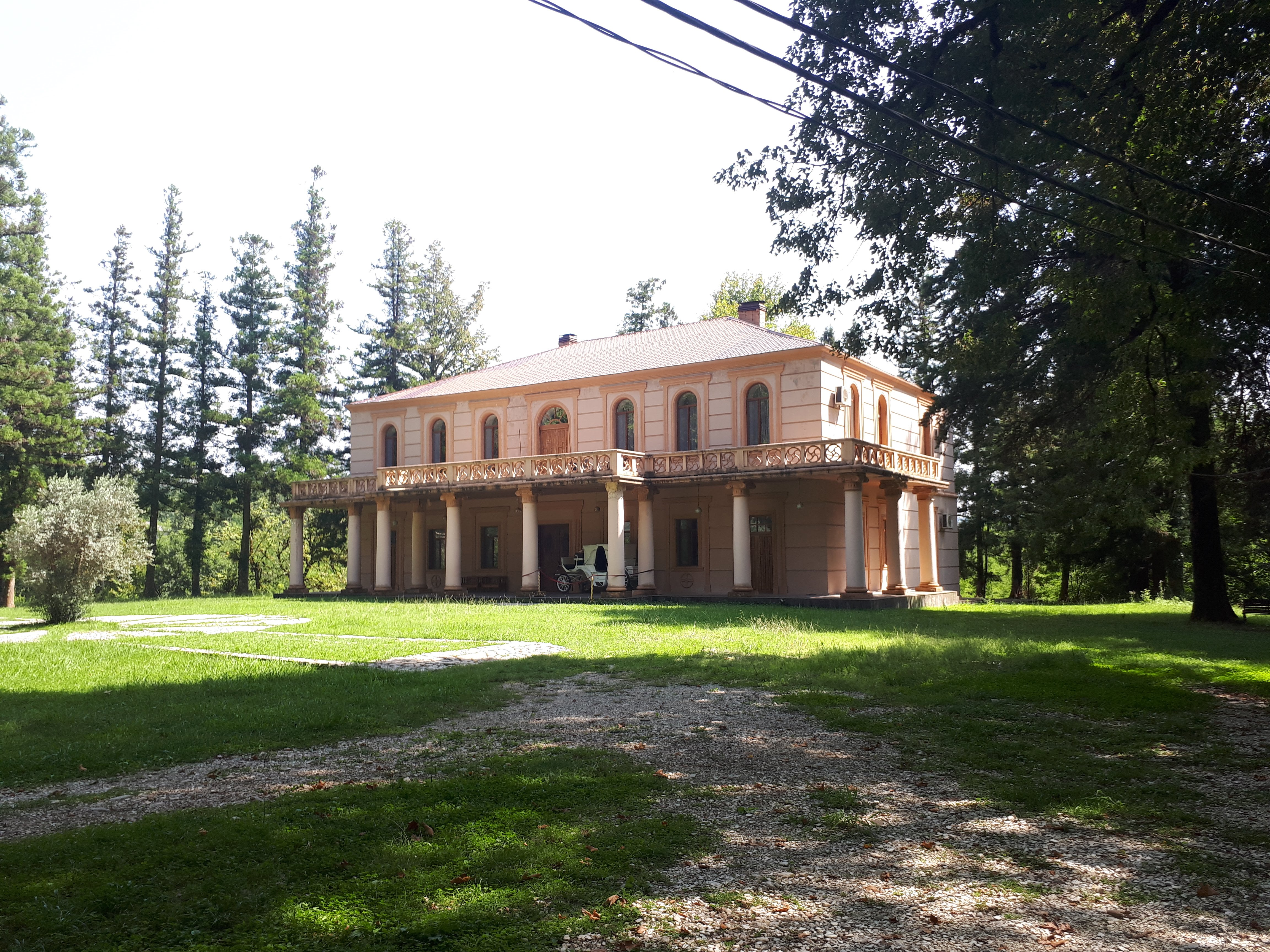 Salkhino mansion, former summertime residence of the Princes Dadiani of Mingrelia.